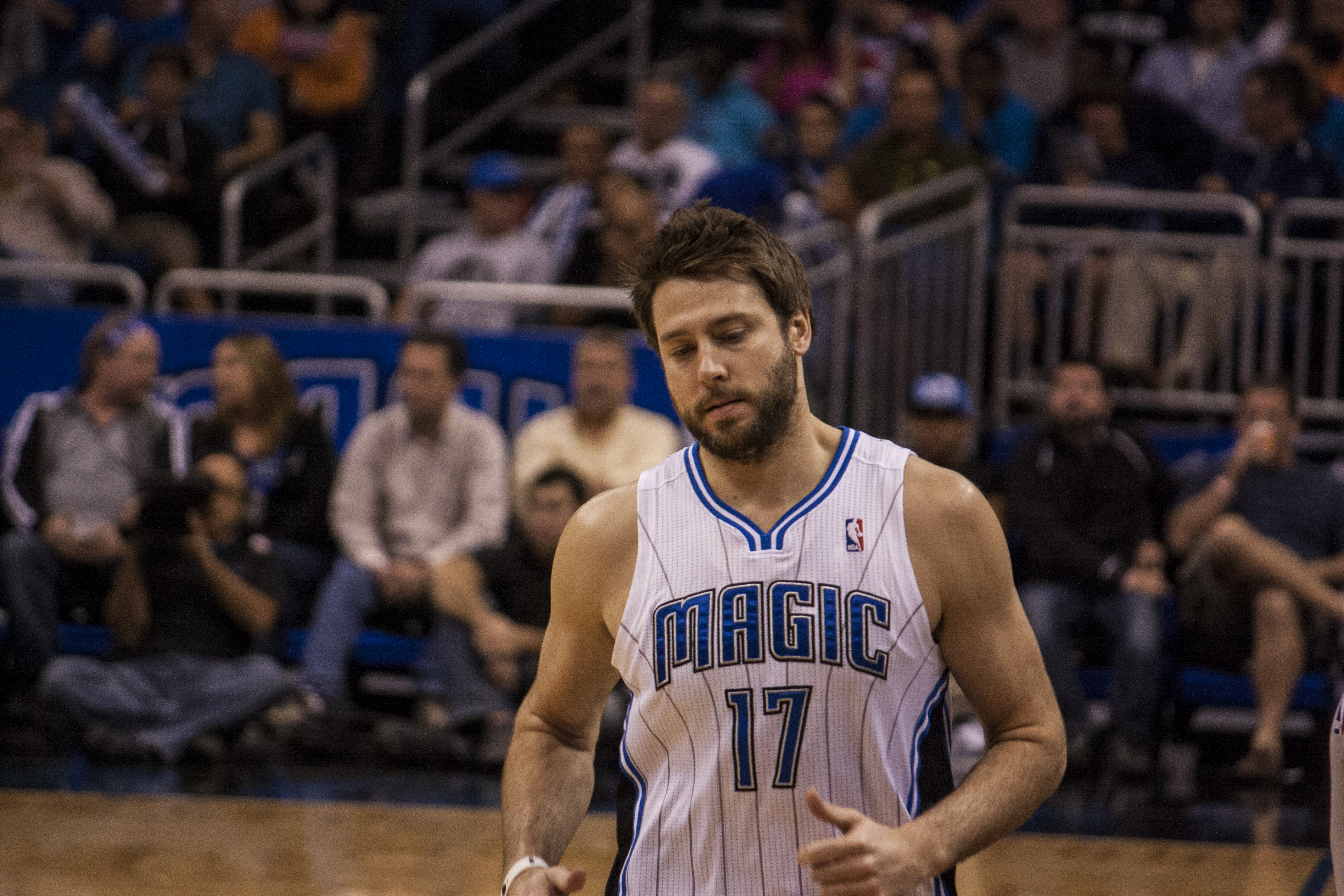 Josh McRoberts of the Orlando Magic.